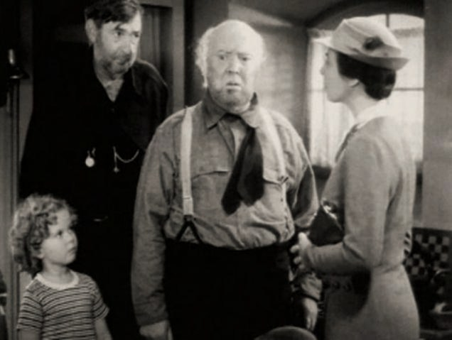 Left to right: Shirley Temple, Slim Summerville, Guy Kibbee, and Sara Haden in Captain January (1936) - trailer (cropped screenshot)